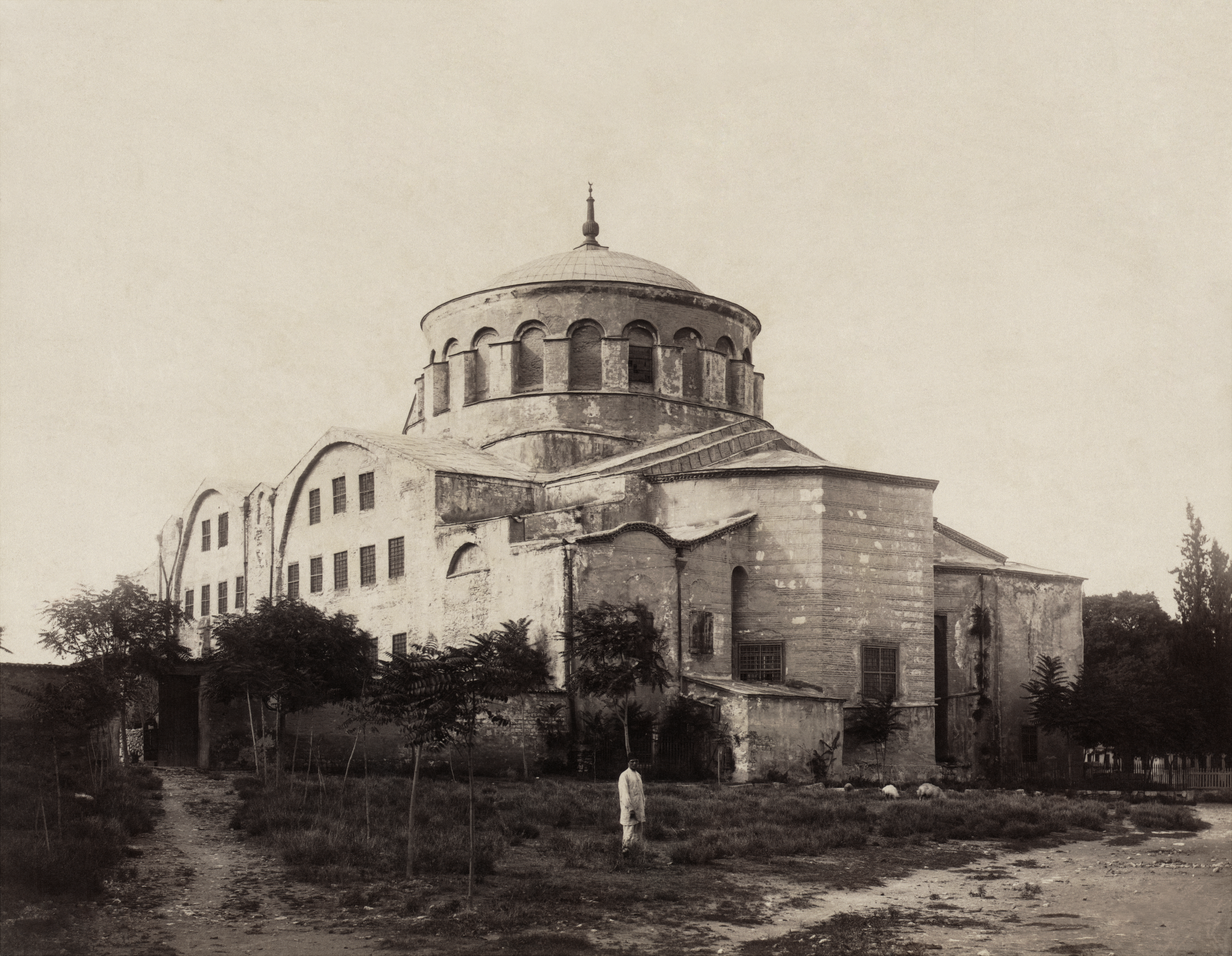 Exterior of Saint Irene Church, Istanbul, Turkey. "Ste Iréne / Sébah & Joaillier". 1 photographic print : albumen.